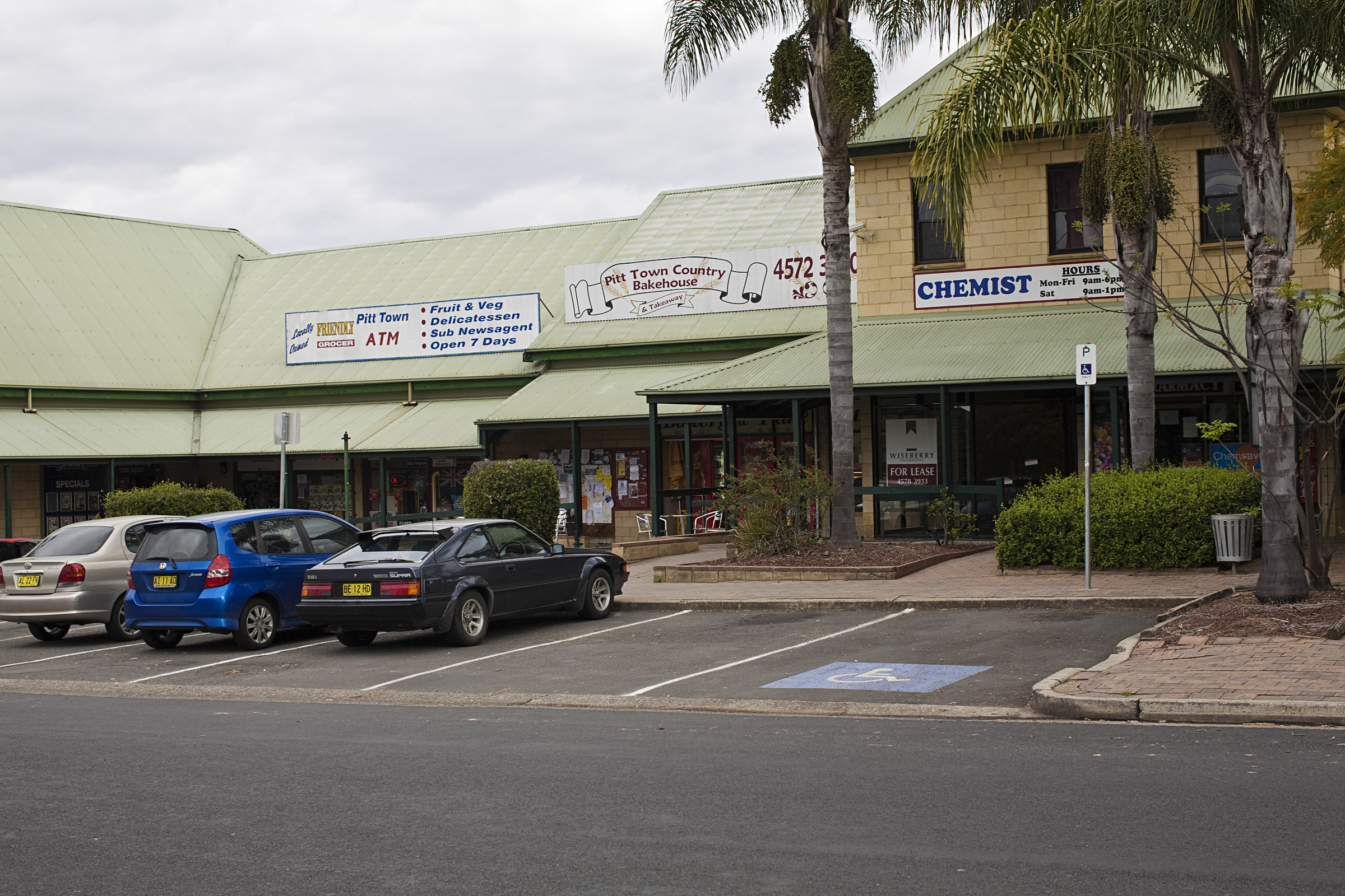 Shopping centre at Pitt Town, NSW, Australia.